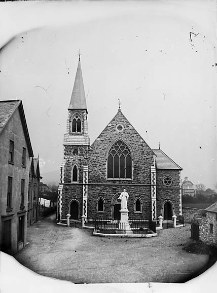 1 negative : glass, wet collodion, b&w ; 16.5 x 12 cm.